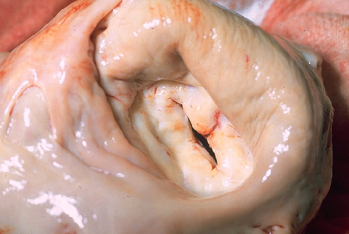 ID#: 849 Description: Gross pathology of heart showing mitral stenosis. Left atrium has been opened to show thickened mitral valve leaflets from above. Autopsy. Content Providers(s): CDC/Dr. Edwin P. Ewing, Jr. Creation Date: 1973 Copyright Restrictions: None - This image is in the public domain and thus free of any copyright restrictions. As a matter of courtesy we request that the content provider be credited and notified in any public or private usage of this image.